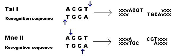 Recognition sequence of the restriction enzymes TaiI and MaeII